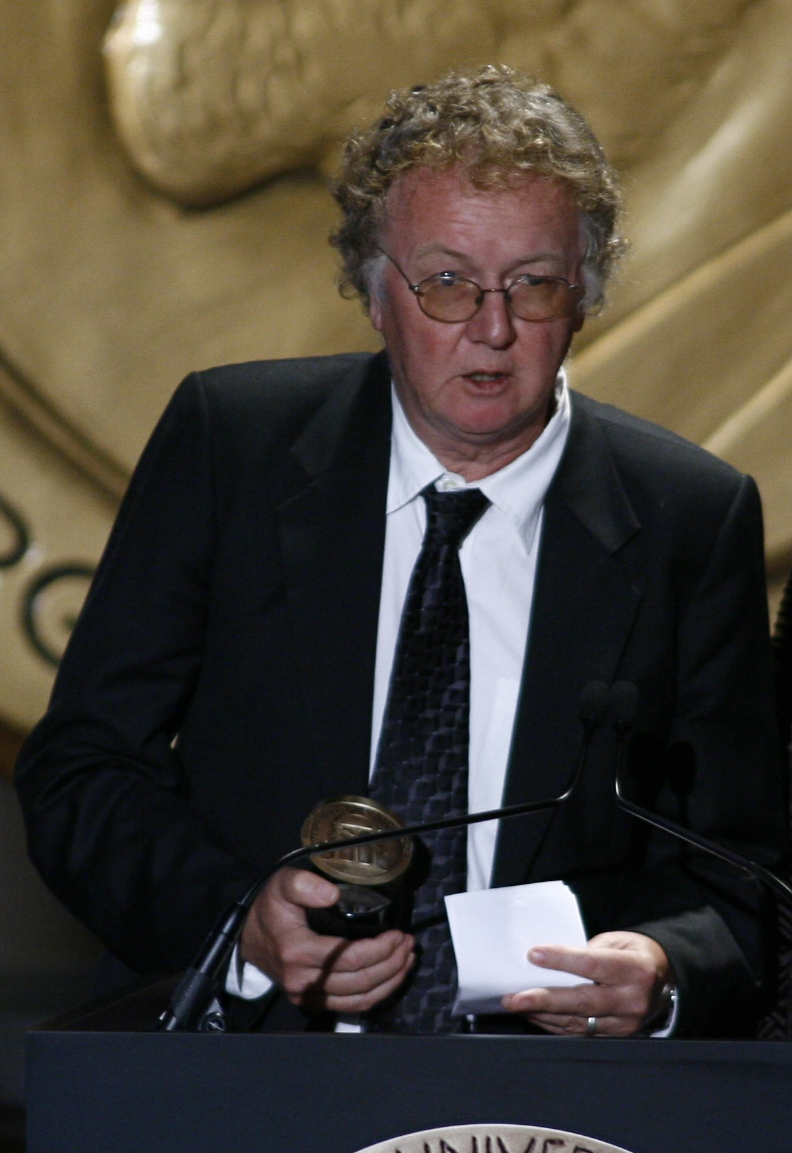 Author and screenwriter Nigel Williams at the 66th Annual Peabody Awards, New York City.